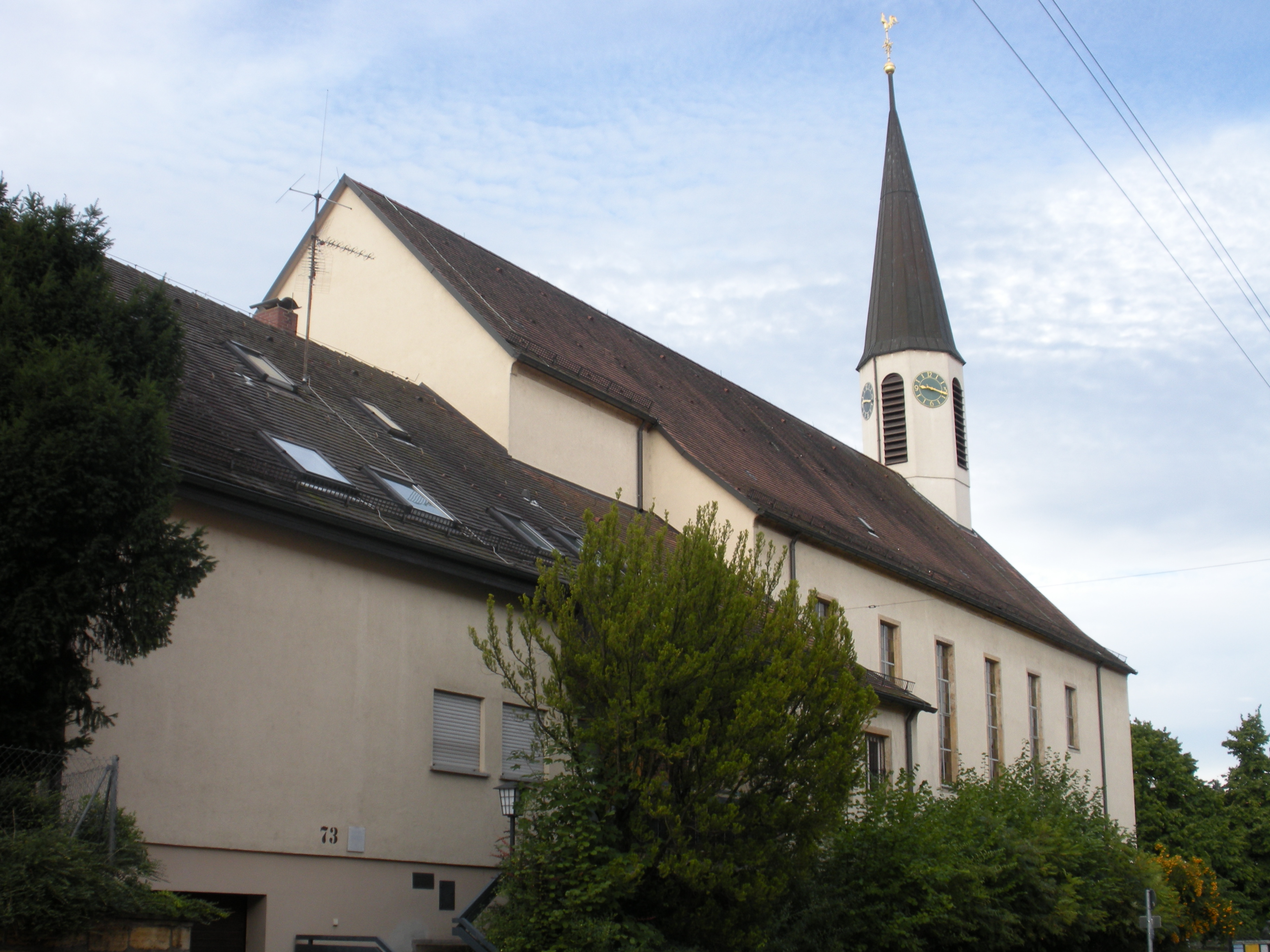 Protestant Church of Trinity in Stuttgart-Münster